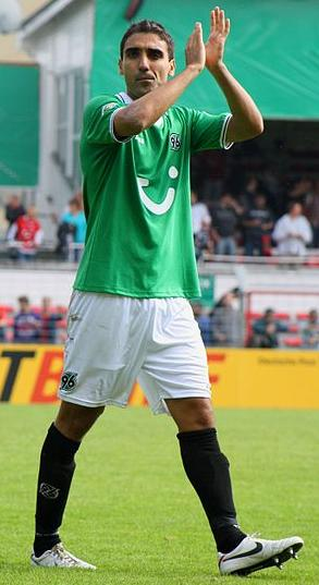 M. Abdellaoue in 2011 playing for Hannover 96